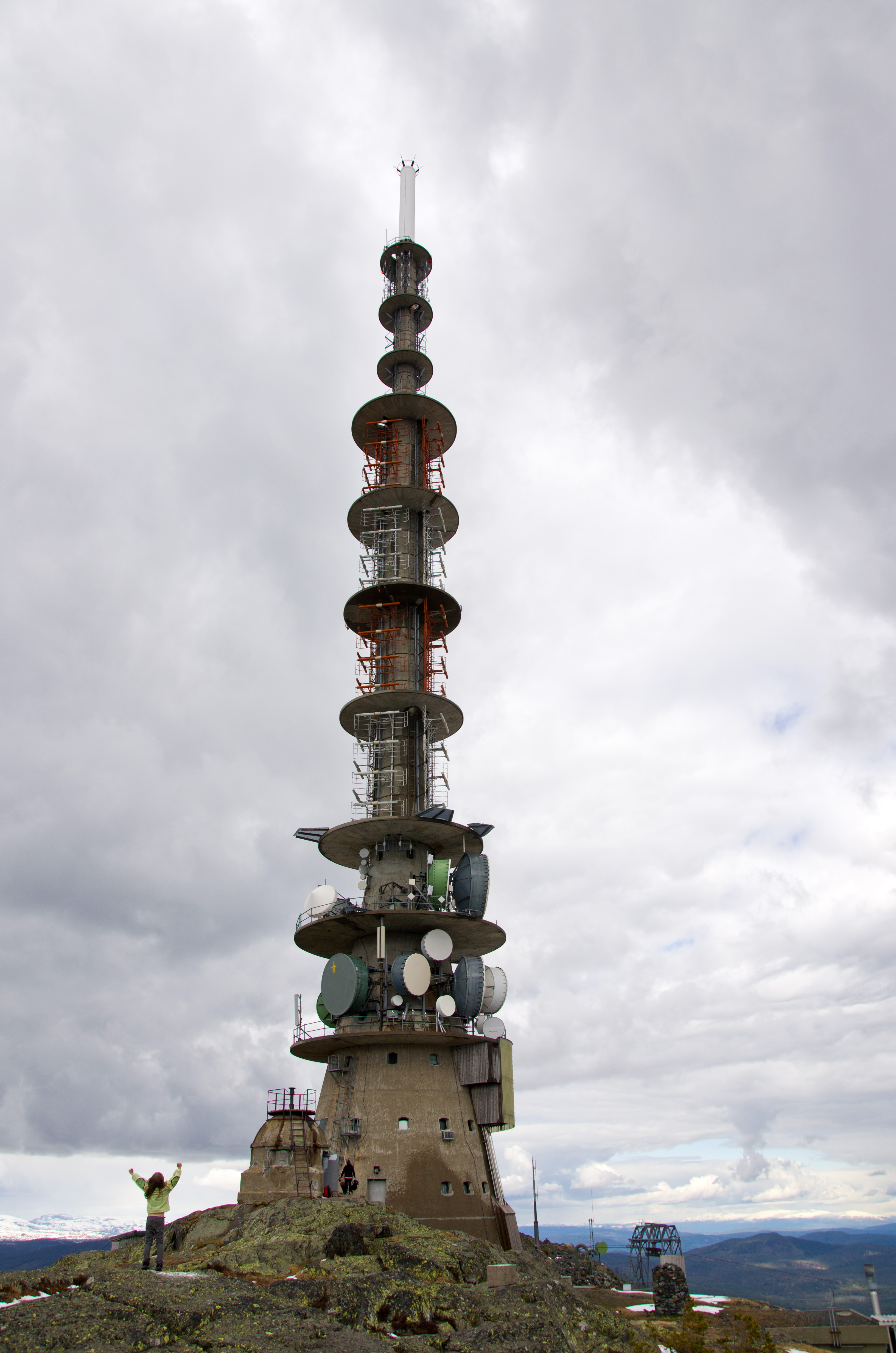 Jonsknuten main transmitter on Jonsknuten in Kongsberg , Buskerud county, Norway. Height 92 m. Built 1960-1961.